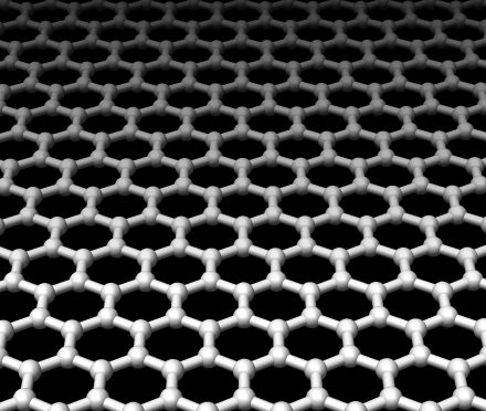 Dr Thomas Szkopek